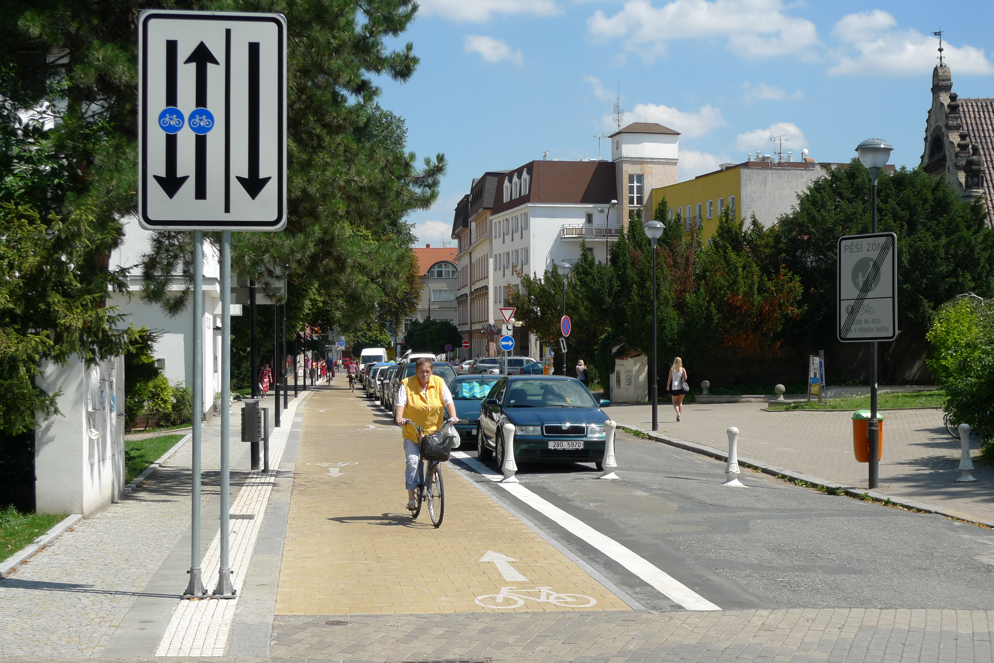 Cycle lane in Poděbrady, Czech Republic